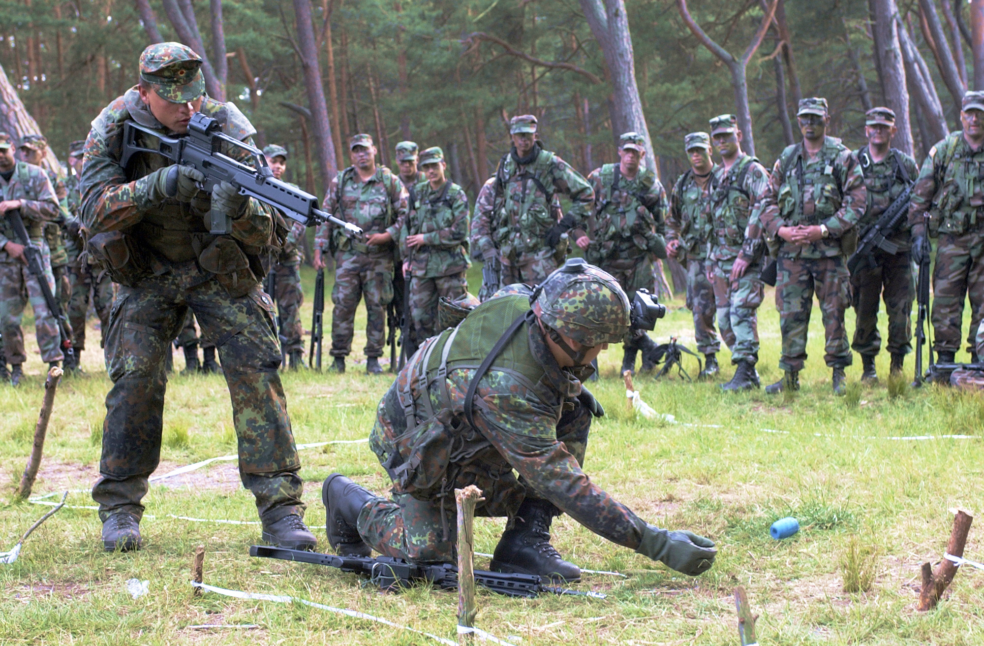 German infantrymen practice building clearance drills as their U.S counterparts observe.